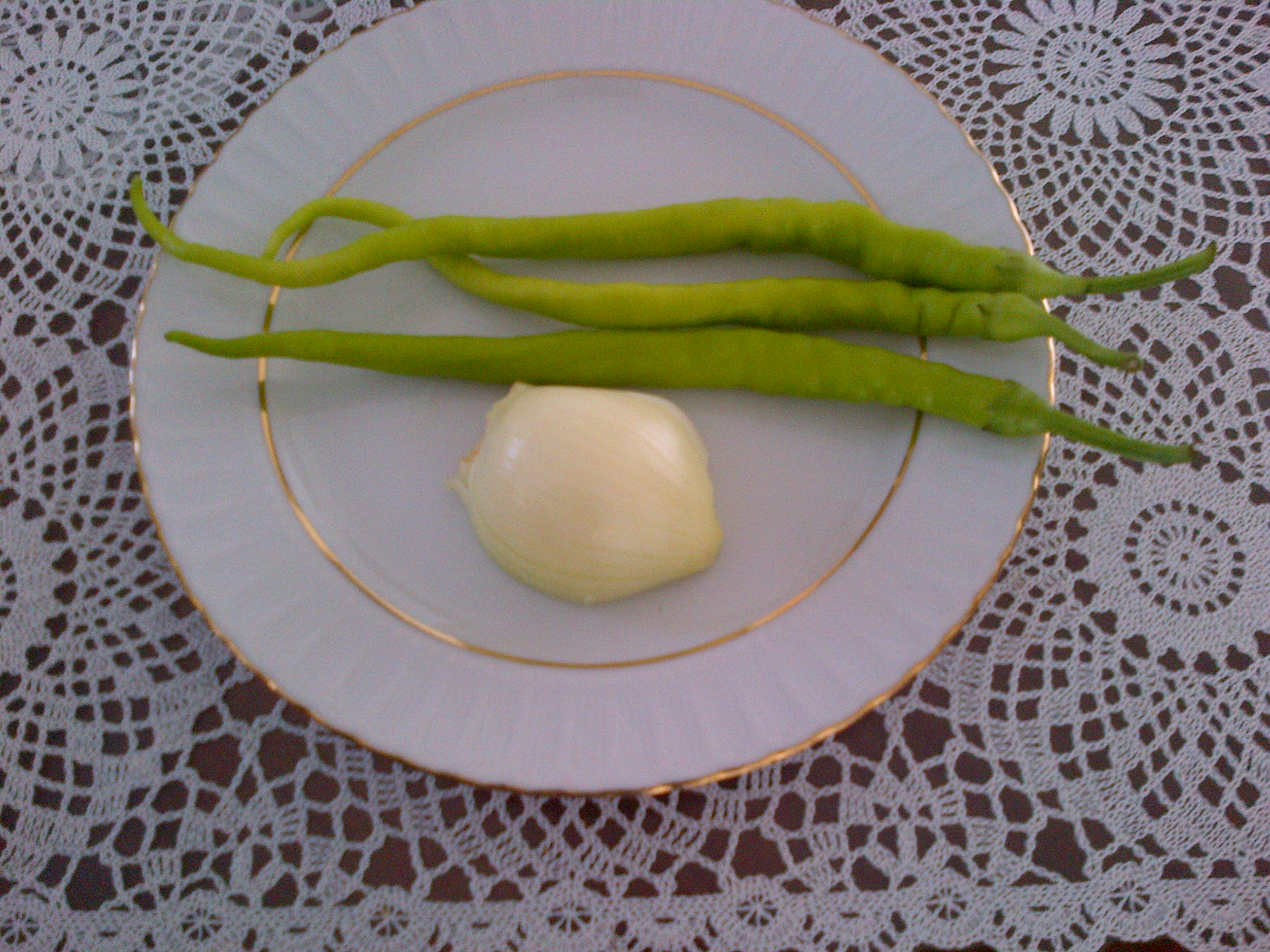 When "kuru fasulye "is eaten in a traditional Turkish home or restaurant, it is almost always accompanied by raw onion and green peppers.